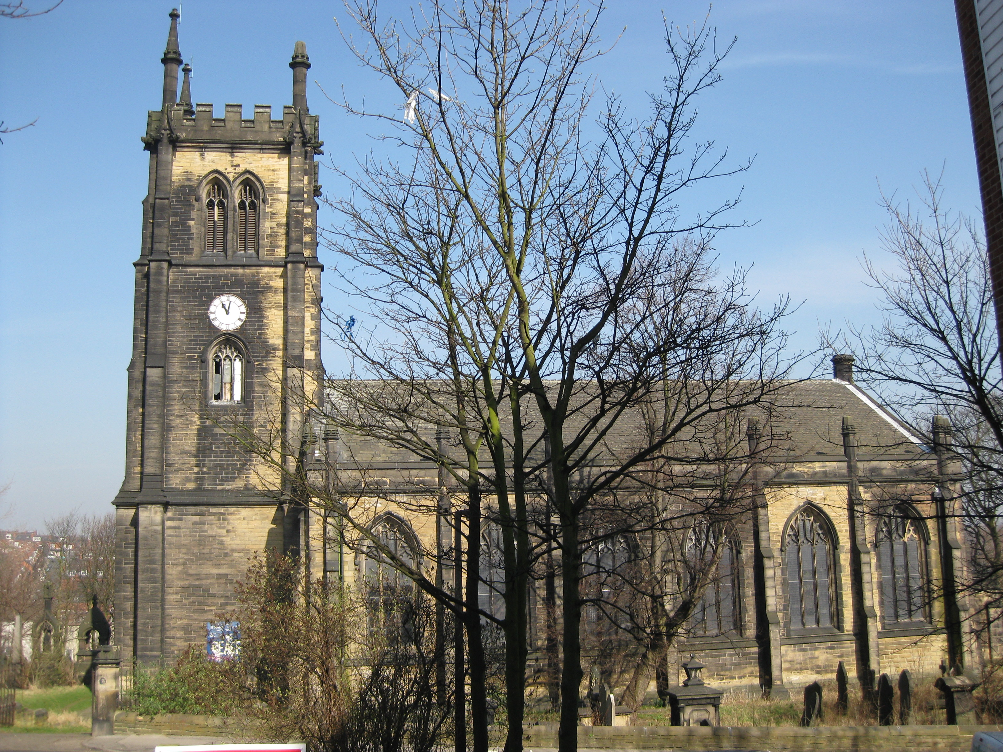 St Mark's Church (C of E), St Mark's Road, Woodhouse, Leeds LS2. Formerly the parish church of Woodhouse, in the Diocese of Ripon, now closed for some time.